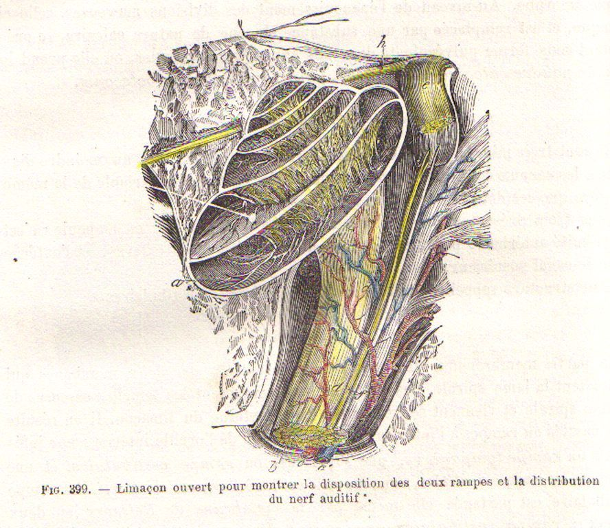 The cochlea of the ear.